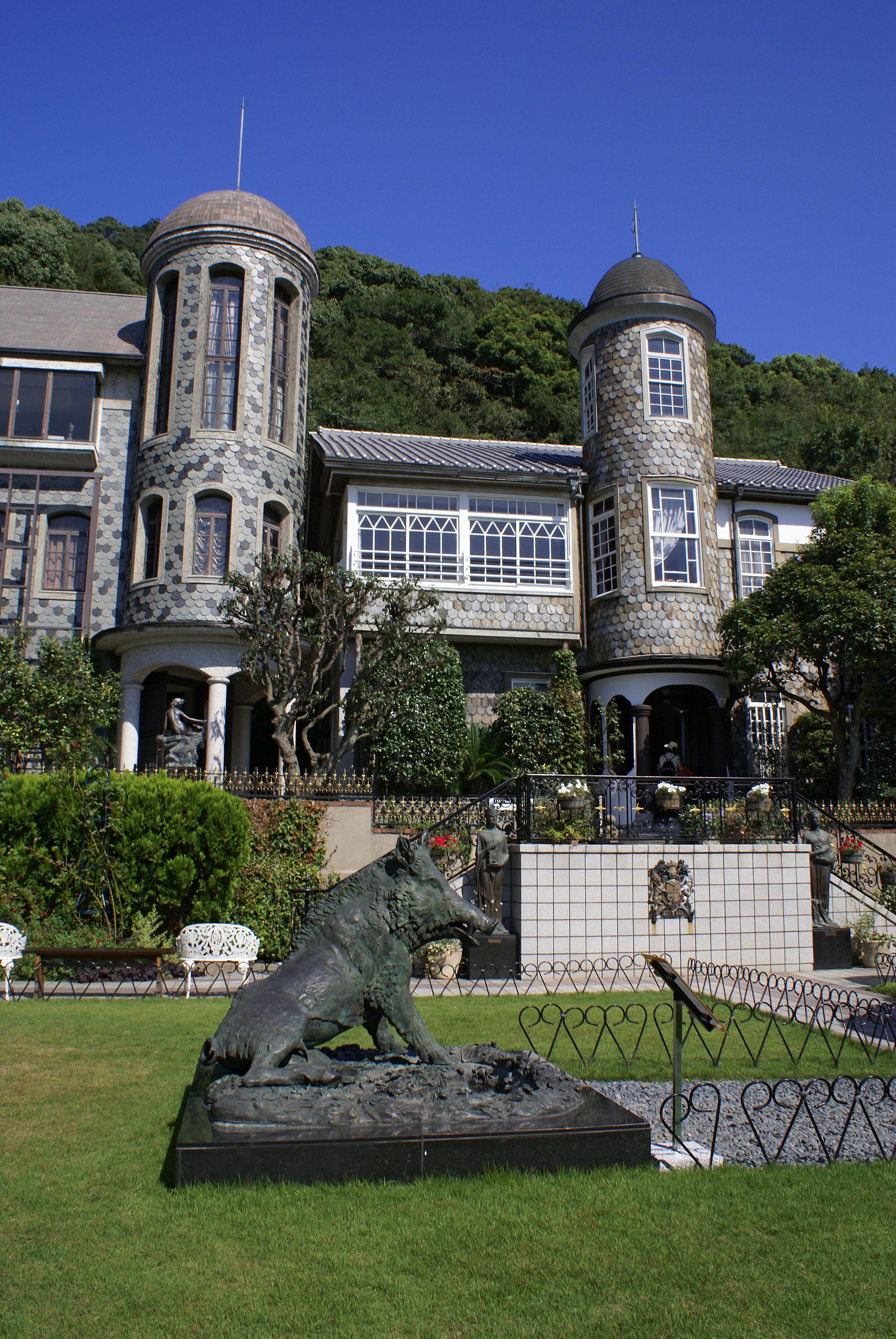 Uroko House and Uroko Museum of Art in Kobe, Hyogo, Japan